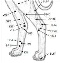 The veterinary acupuncture points on the hind legs of a dog.